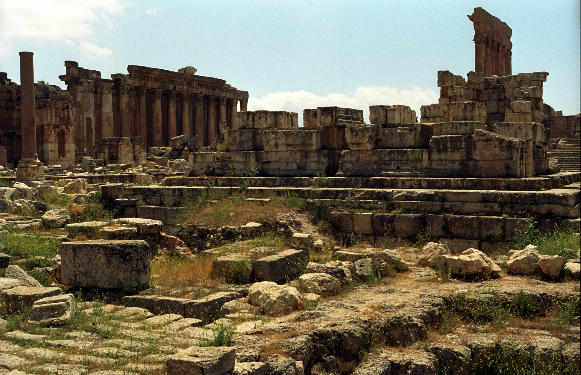 Baalbek, Temple of Jupiter, the Great court